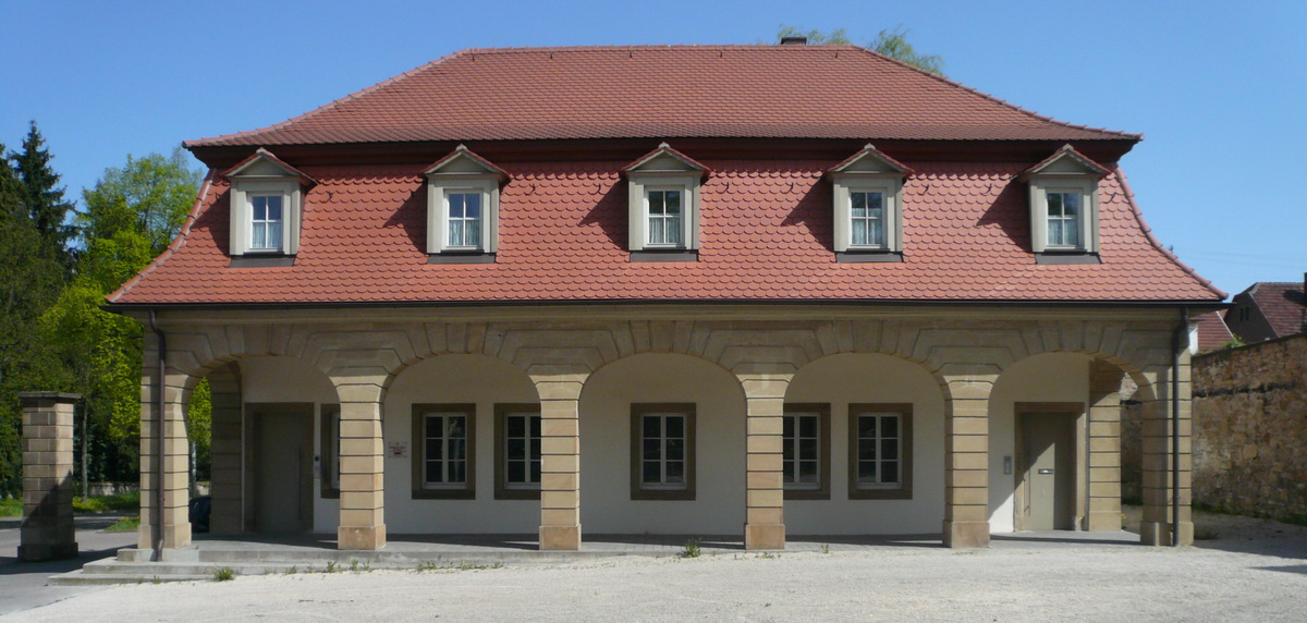 Schorndorf gatehouse with rest of the city wall, Ludwigsburg